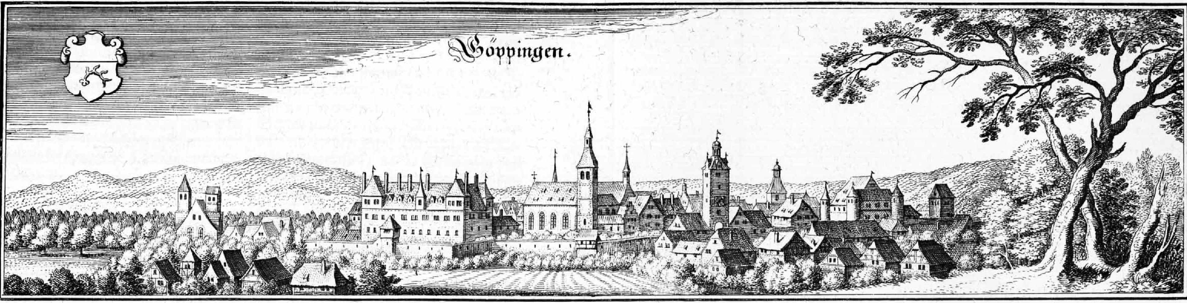 This is a scan of the historical document: Title: Stadt Göppingen aus Topographia Sueviae (Schwaben), 1643/1656